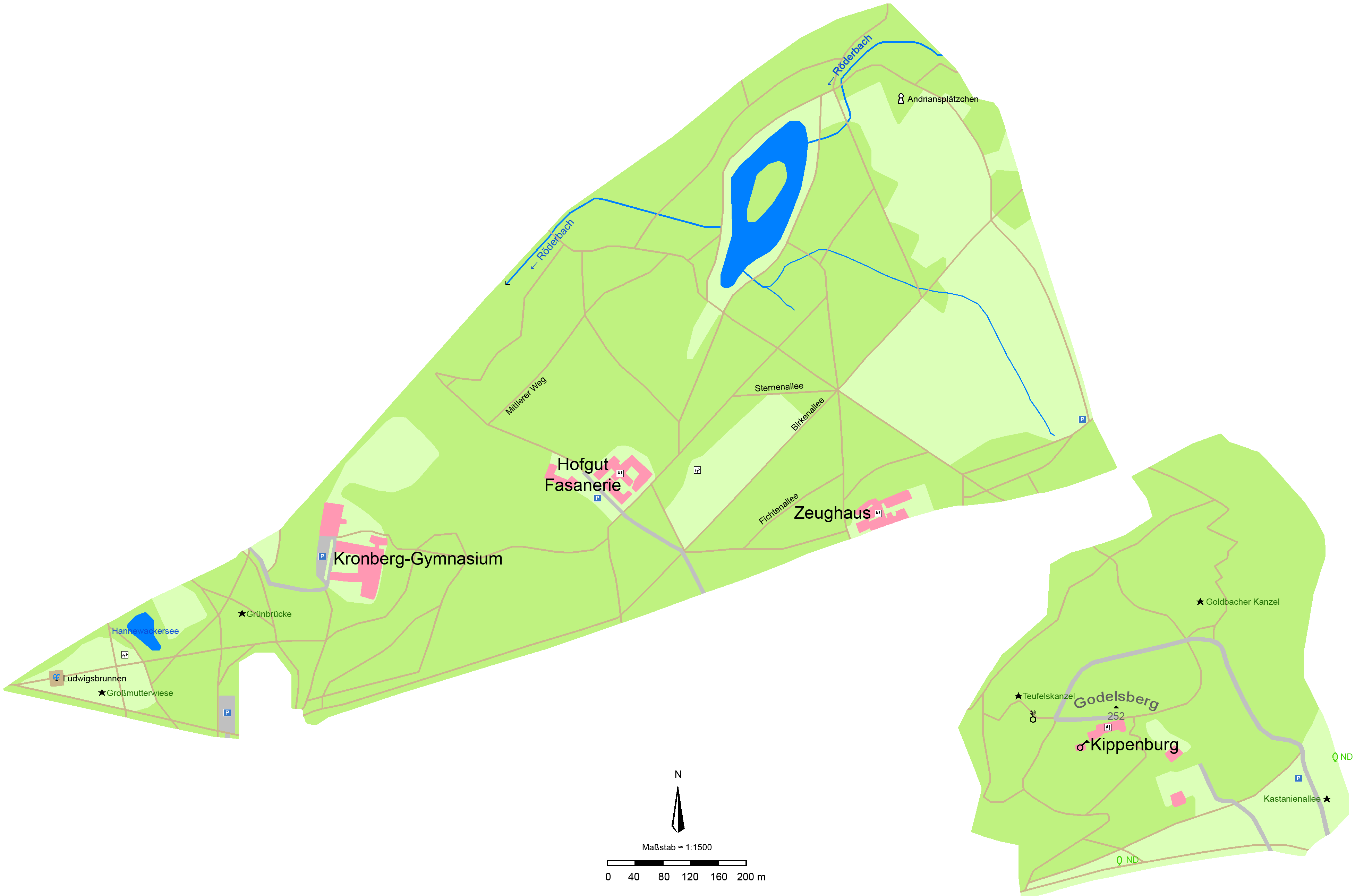 Map of Fasanerie, Godelsberg and Großmutterwiese in Aschaffenburg, Bavaria Building Forest, Tree Meadow Body of water Ruin Natural monument Parking lot tourist attraction Restaurant Playground Fountain Trail